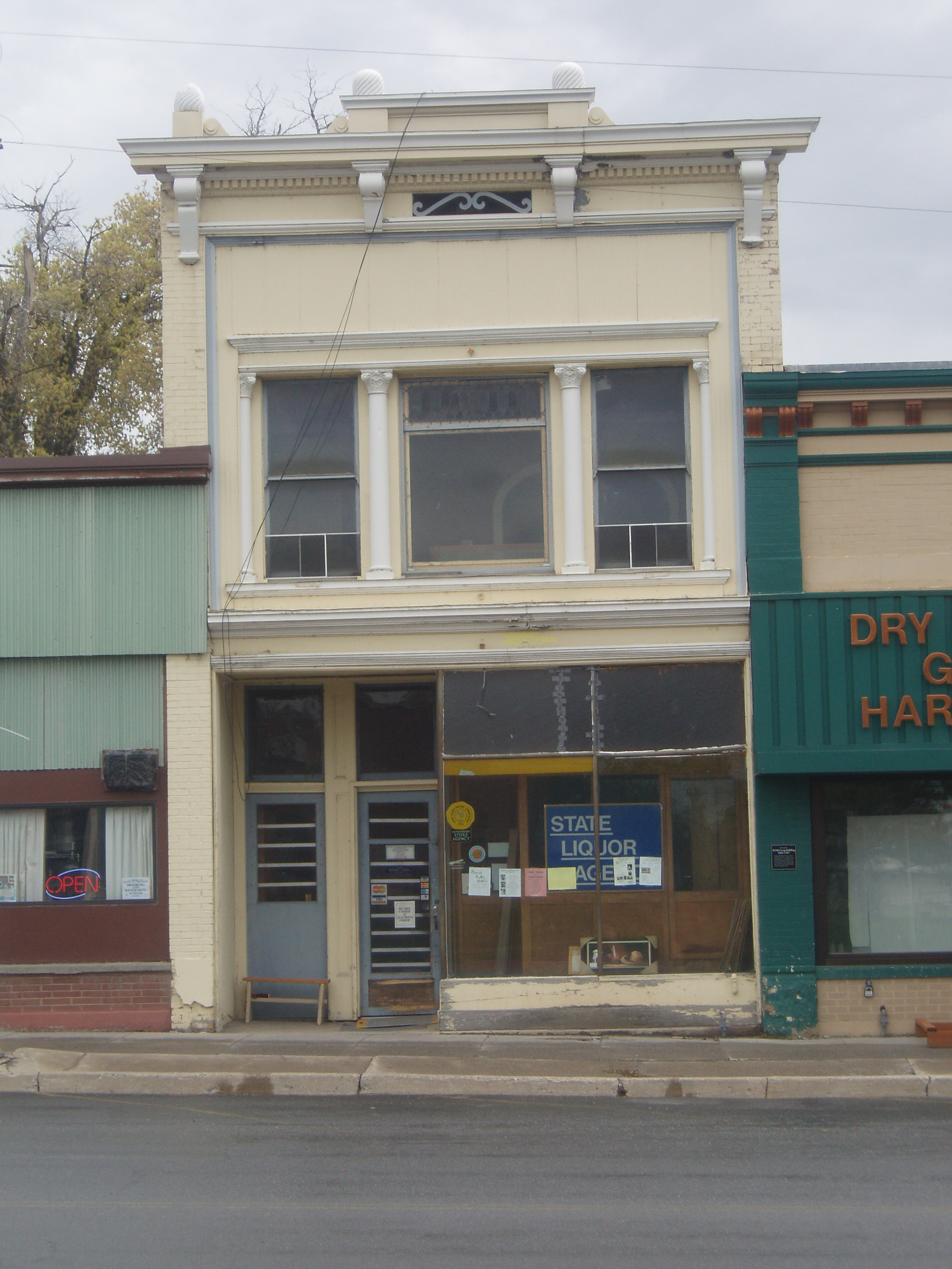 The Hendricks Confectionery Building, a historic building in Richmond, Utah, United States.